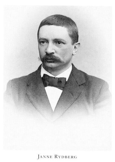 Photograph of the Swedish physicist Johannes (Janne) Rydberg.